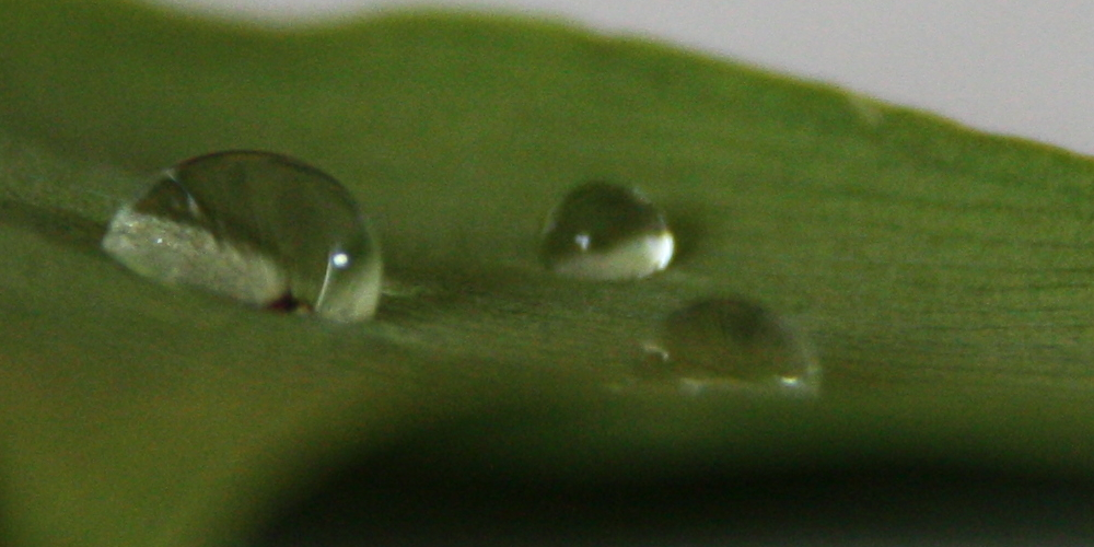 Water drops on the lower face of a Ginkgo biloba leaf, an example of partial wetting.